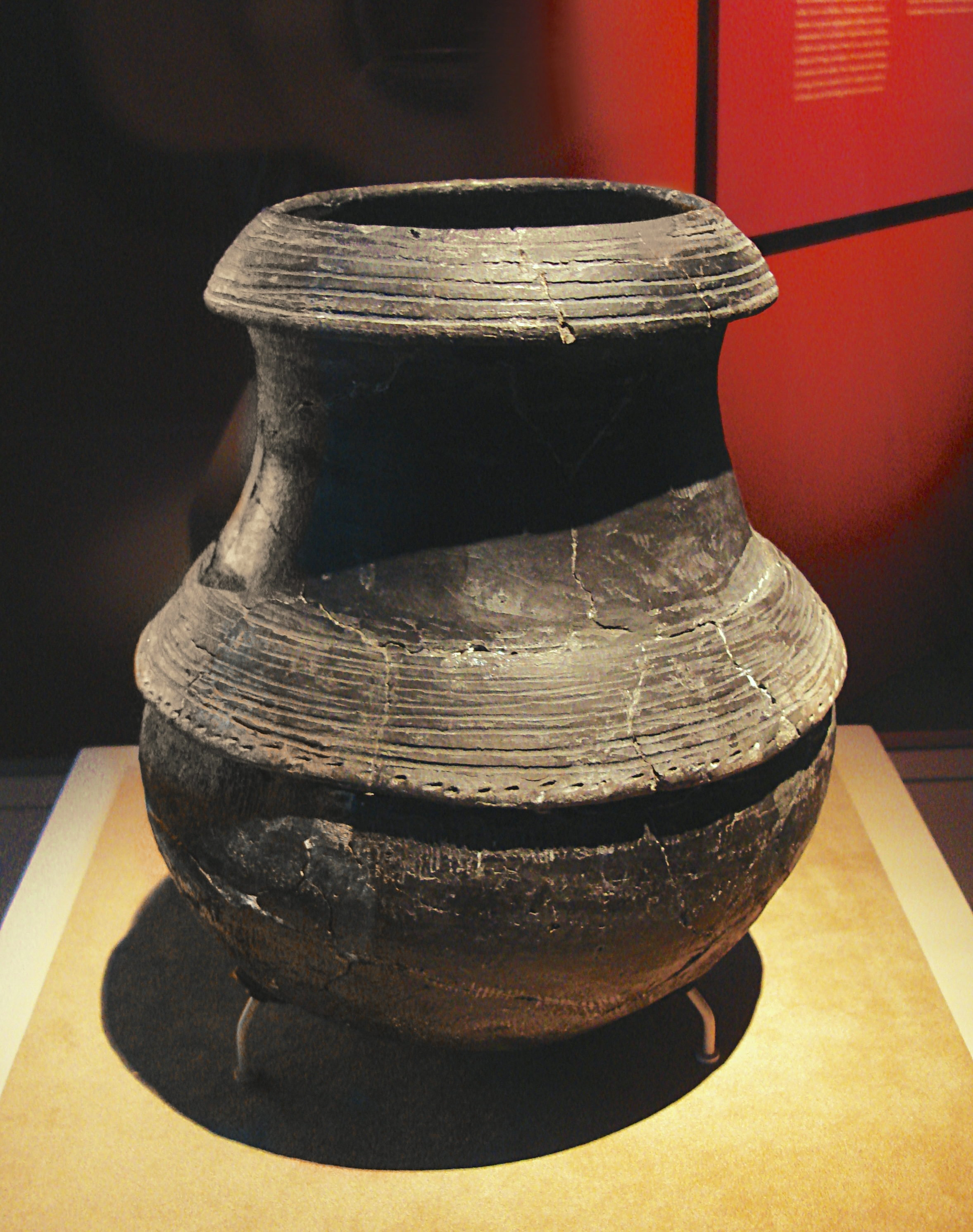 Black Pottery Cauldron Hemudu Culture Neolithic Period (ca. 5000 - 3000 B.C.) Excavated at Yuyao, Zhejiang Province, 1973 The Hemudu Culture, which was located along the lower reaches of the Yangzi River, formed these cooking cauldrons from built-up layers of clay flakes, which were decorated with an overlapping rope pattern. They were placed over open fires.